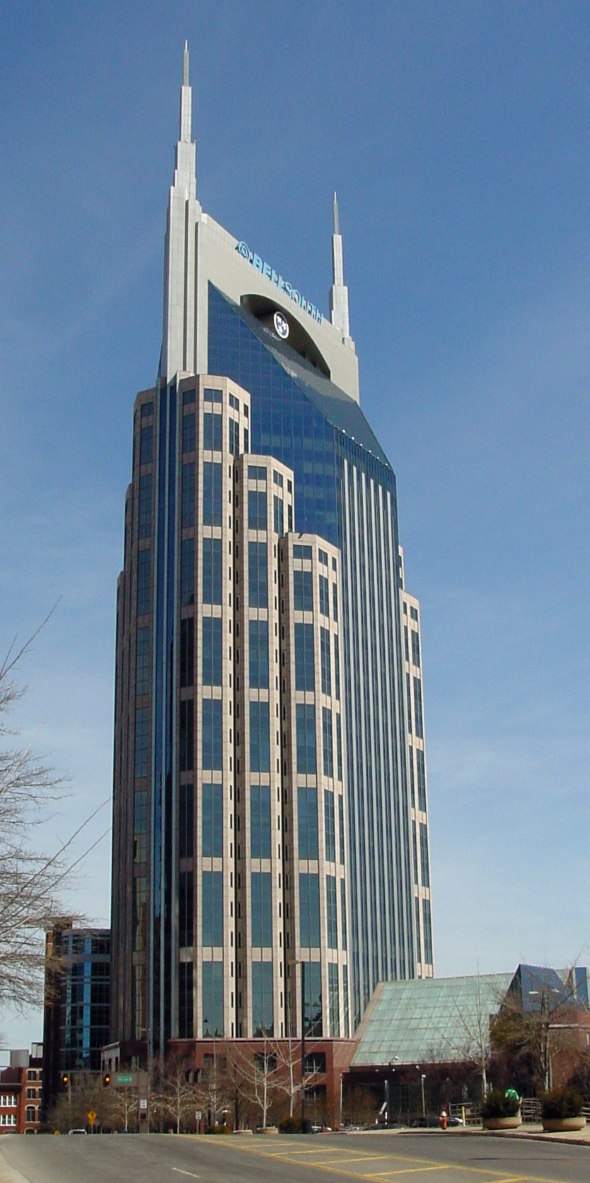 The former BellSouth Building in Nashville, Tennessee, USA. Now named the AT&T Building, illustrated at Image:Att building nashville.jpg.